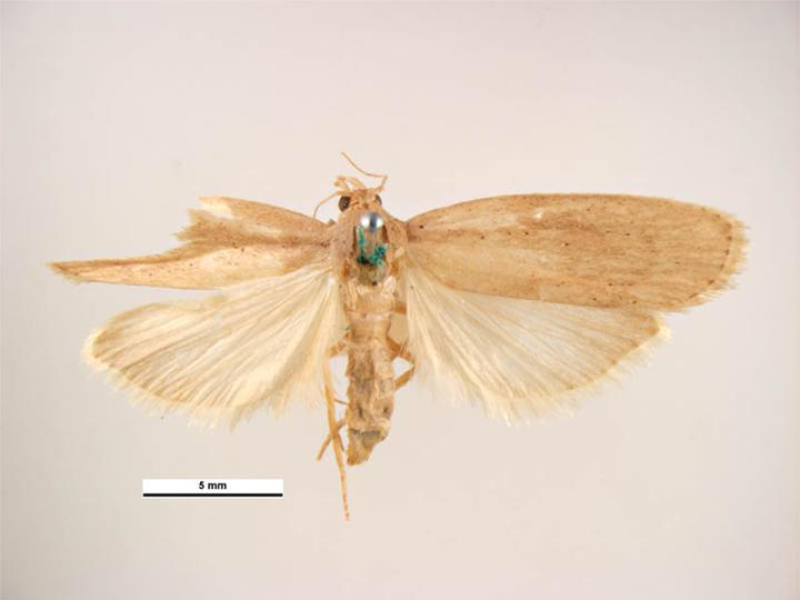 Rice moth (Corcyra cephalonica), female